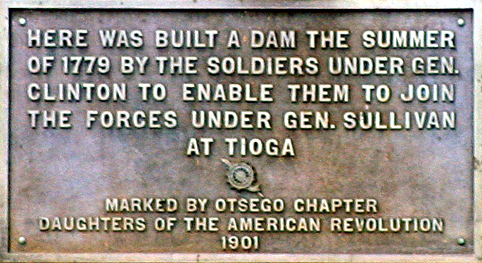 Plaque on the monument for Gen. Clinton's dam at the source of the Susquehanna River in Cooperstown, New York.